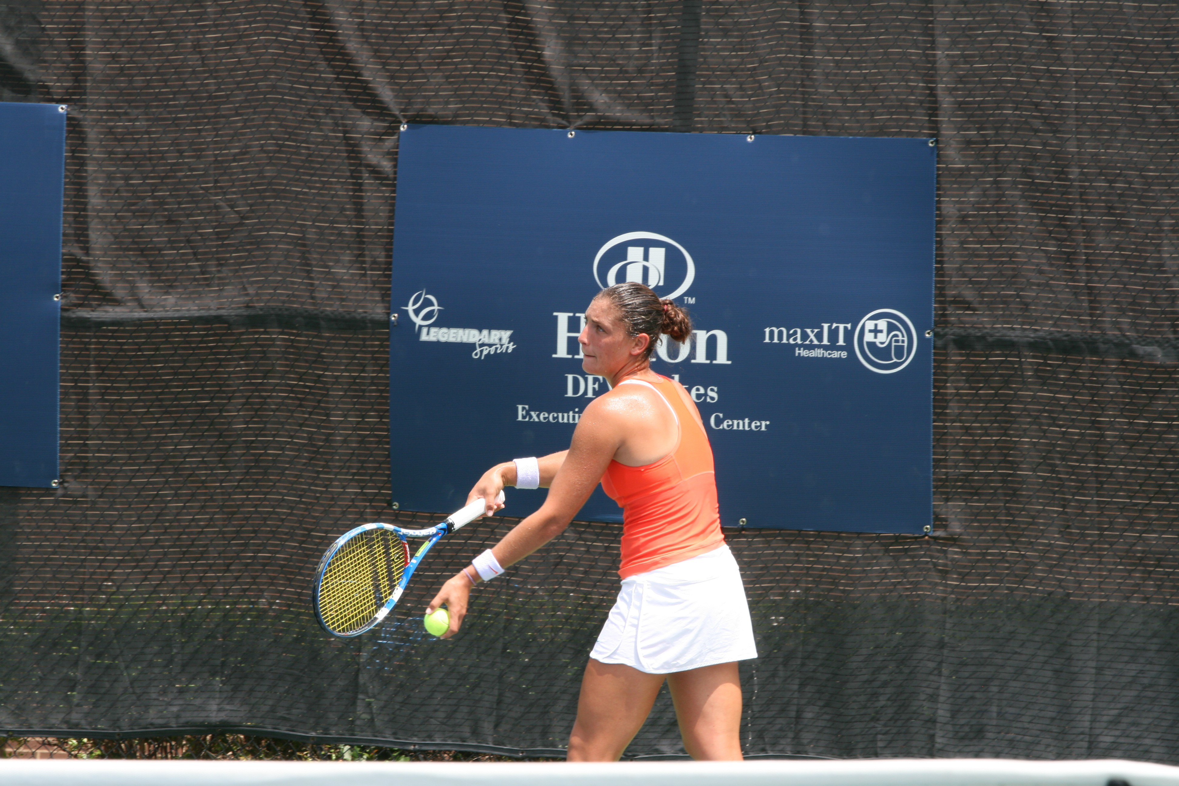 Audra Cohen